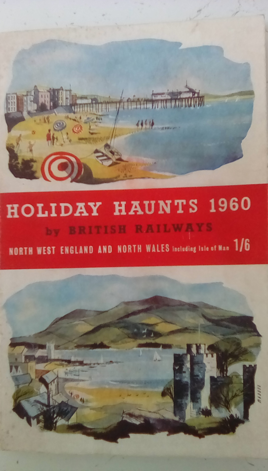 Photograph of British Railways holiday haunts 1960 NW England and Wales brochure